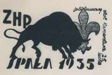 Central European Jamboree